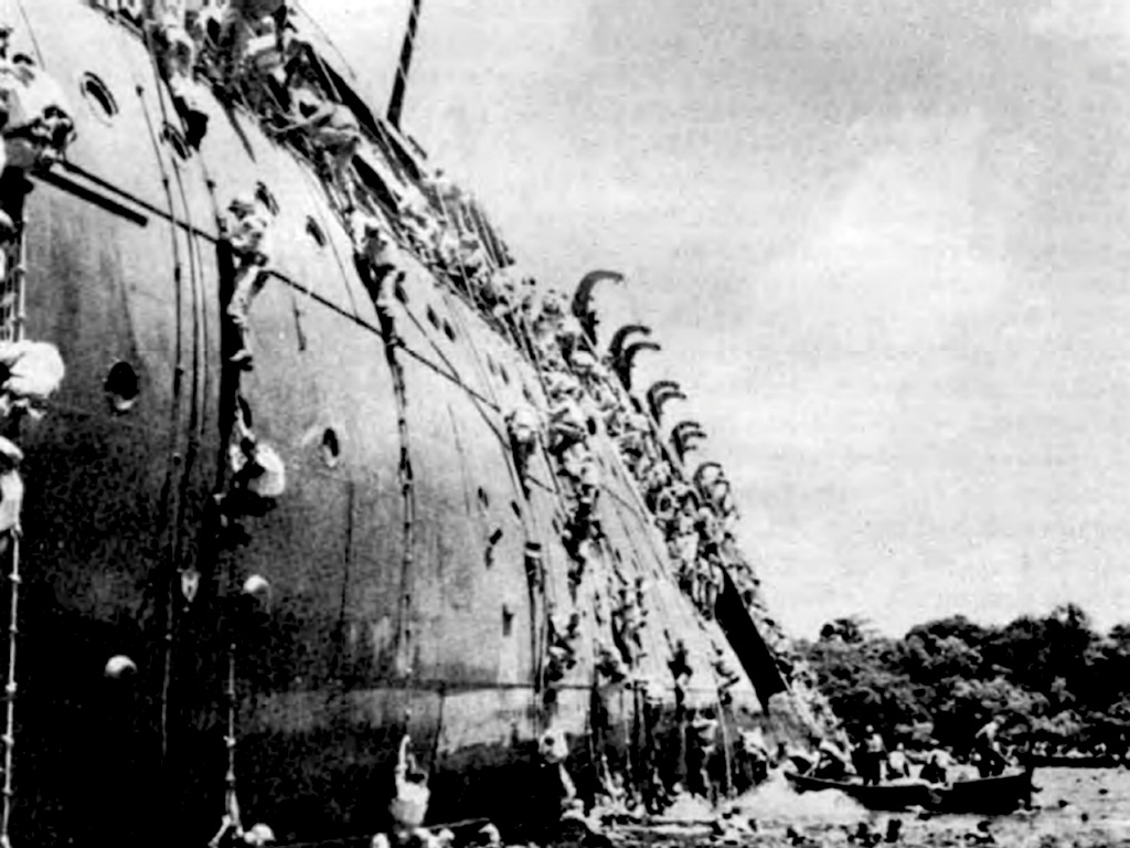 The Beached Transport SS President Coolidge, October 1942, Espiritu Santo; Source: United States Army In World War—The War Department—Global Logistics And Strategy 1940-1943; page 394. Illustrations noted as from "Department of Defense files."